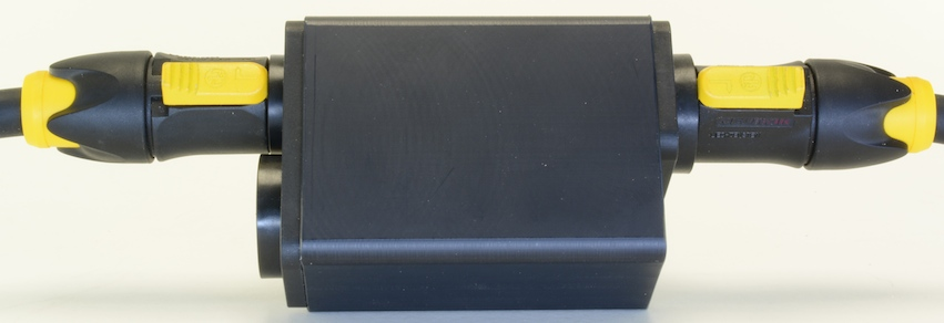 PowerCON TRUE1 alte Version